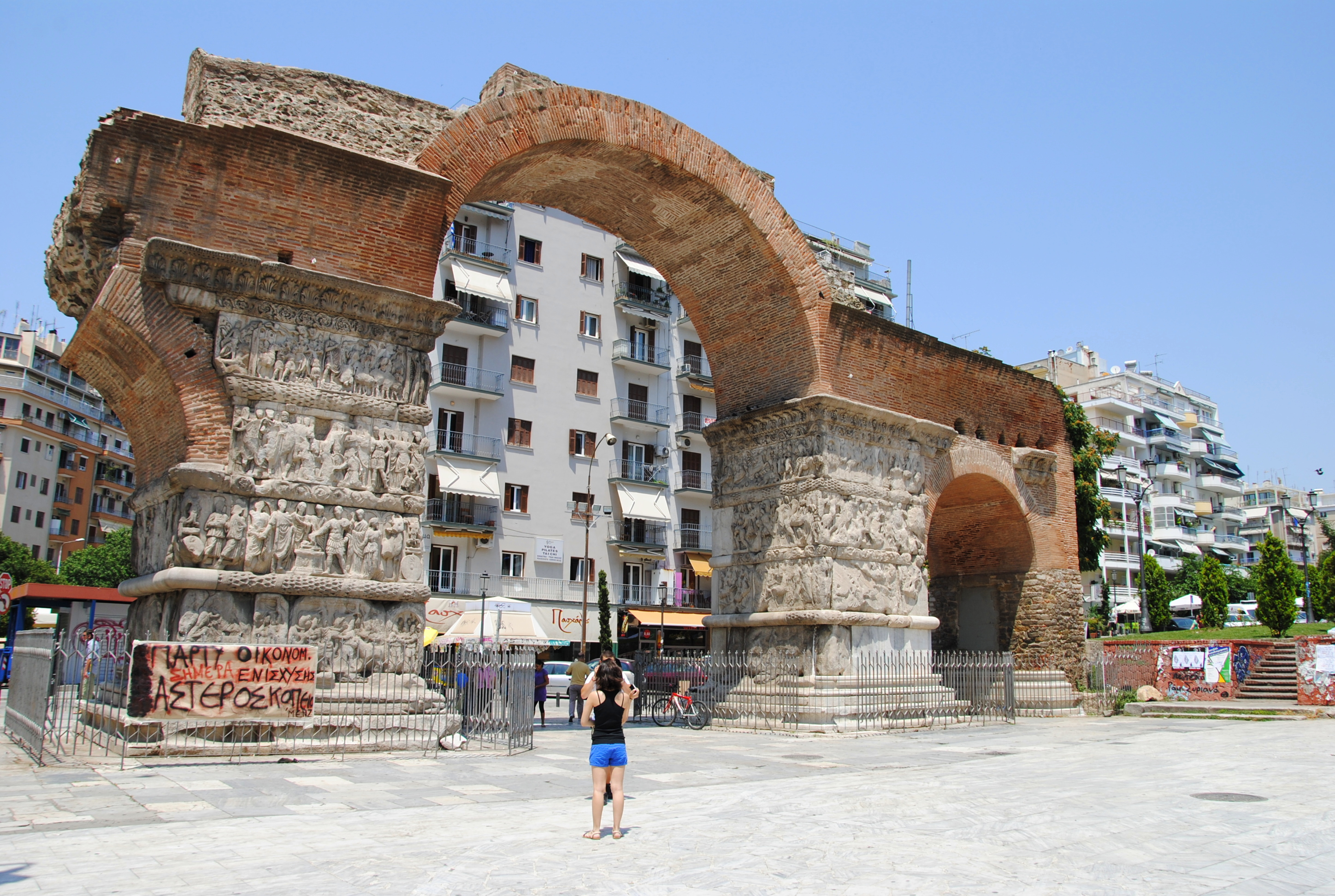 The Triumphal Arch of Gallerius. Thessaloniki, Greece